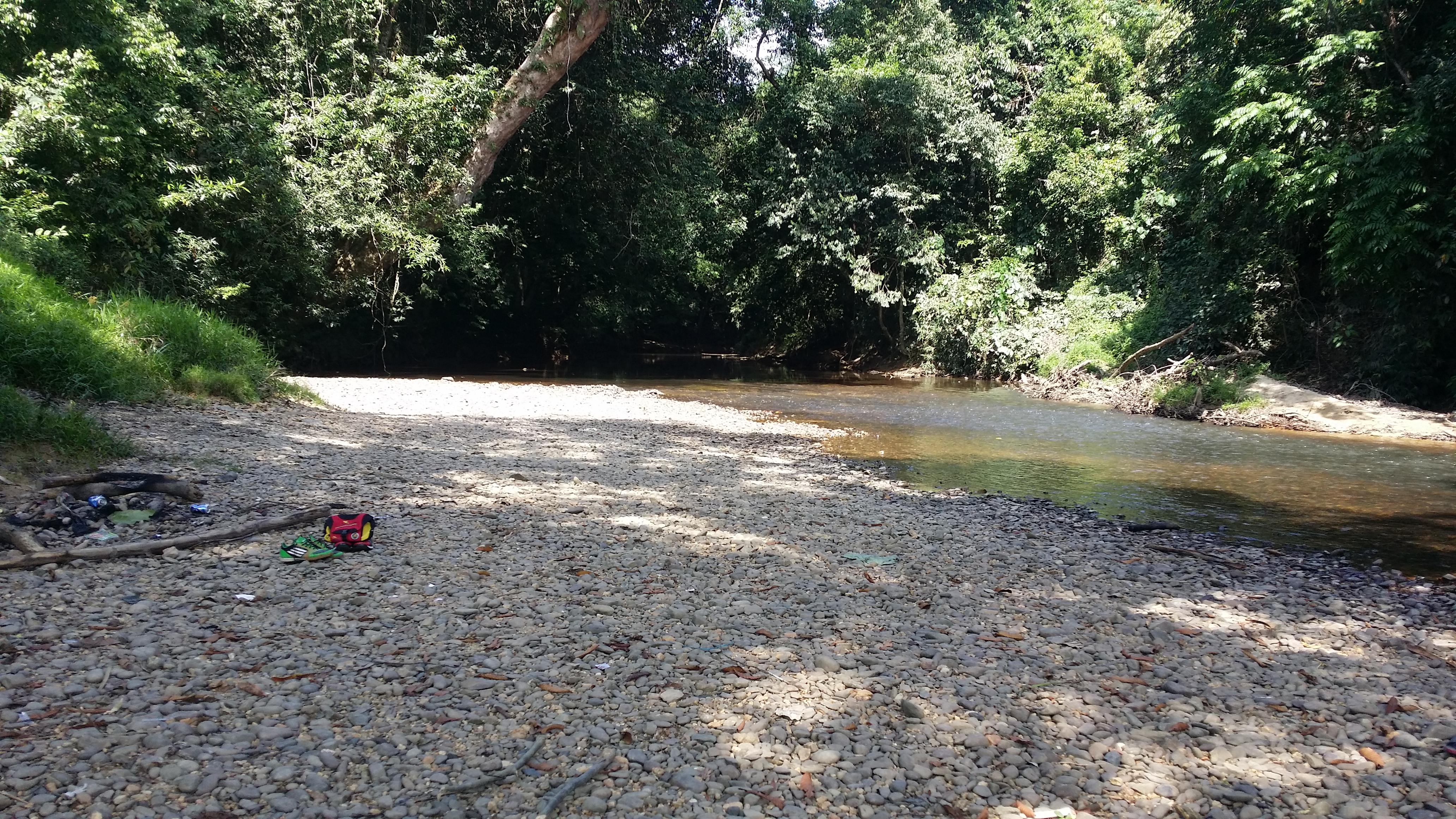 A clean and clear water river beautifies by natural stones, untouched and strictly preserve.